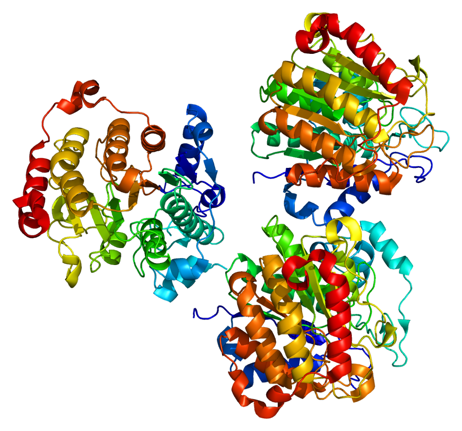 Structure of the HDAC7A protein. Based on PyMOL rendering of PDB 2nvr.